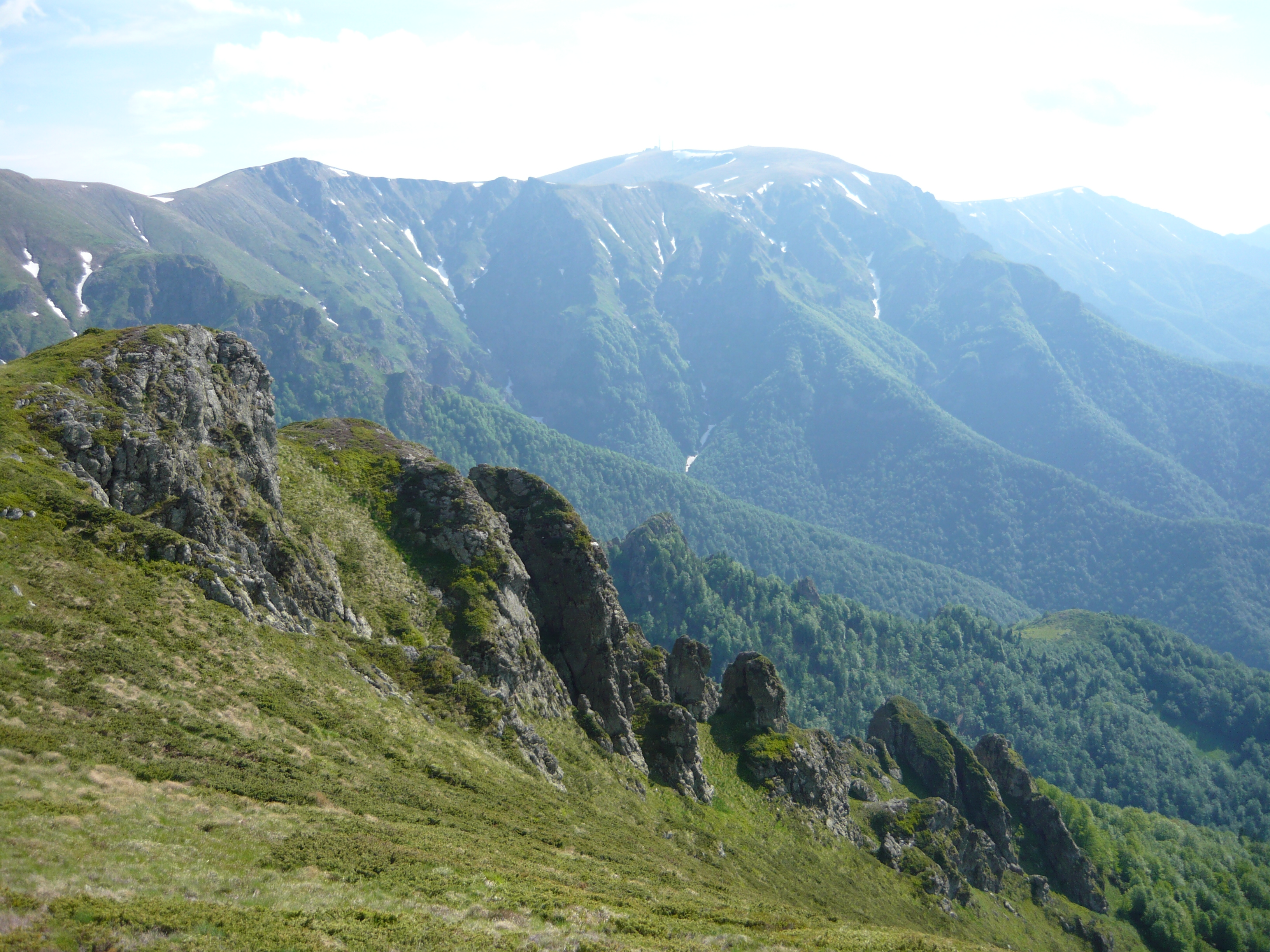 no